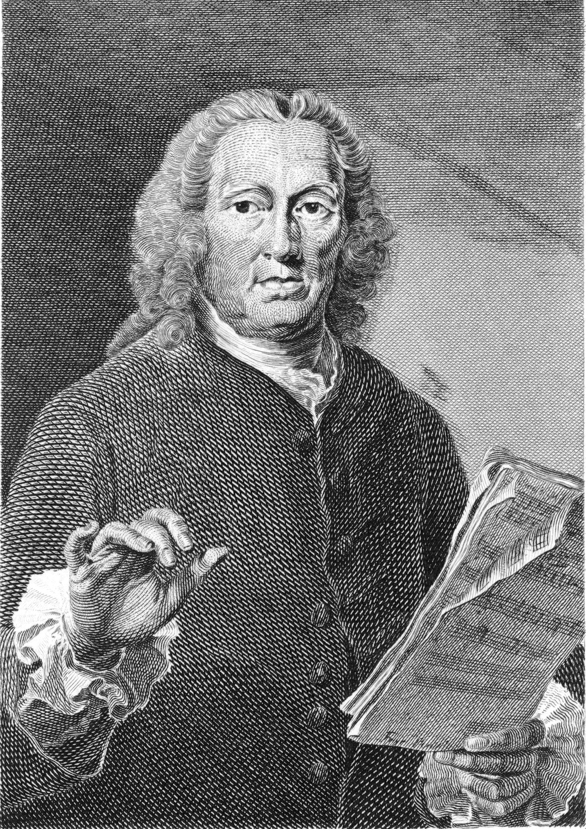 Portrait of Richard Leveridge (1670–1758), British composer